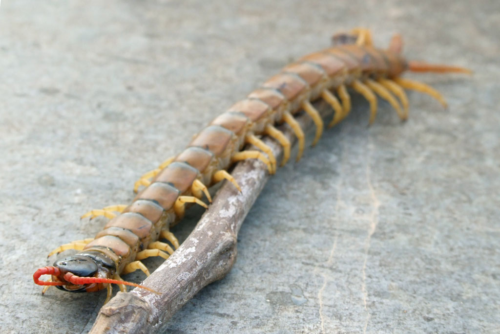 Scolopendra cingulata, a scolopendromorph centipede